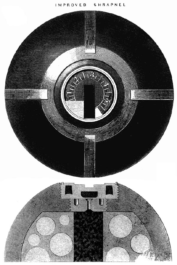 Line Engraving of 12-pounder shrapnel